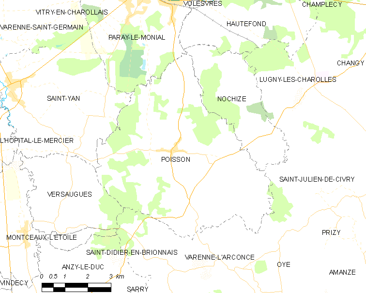 Map of French municipality